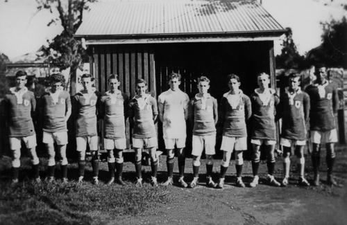 The Pineapple Rovers FC Brisbane, association football team.